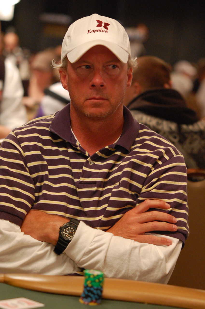 Fred Christenson World Series of Poker